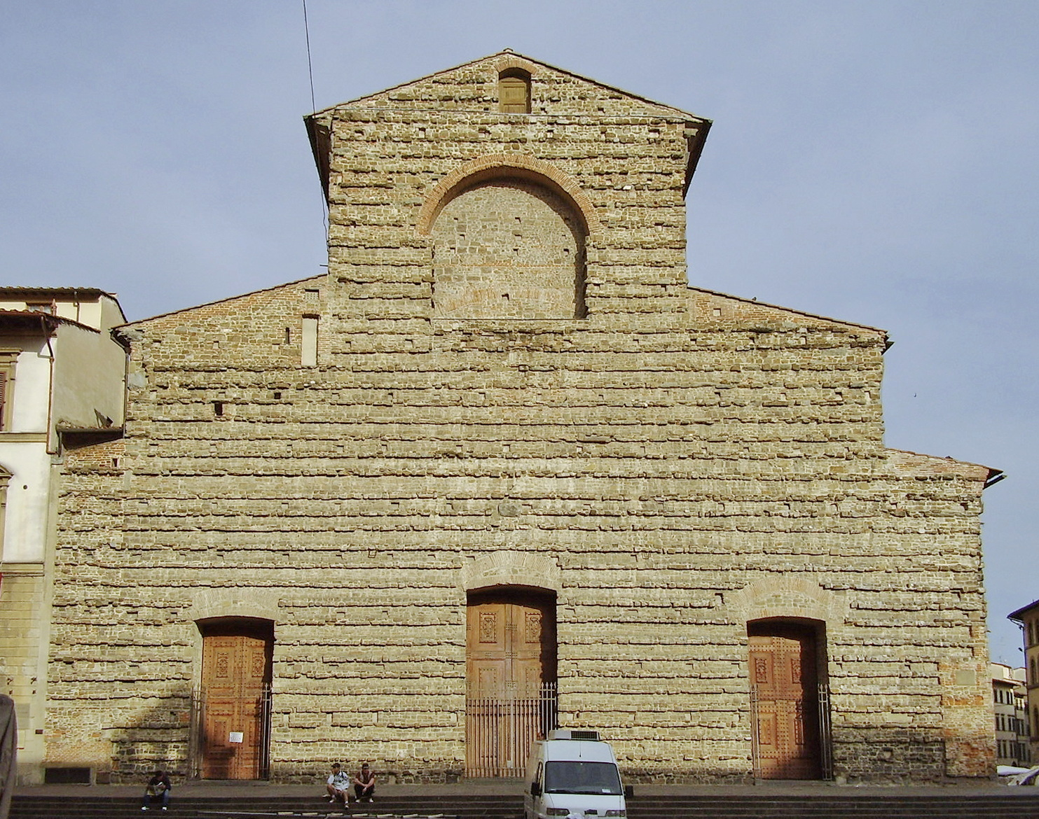 San Lorenzo façade, church in Florence Italy